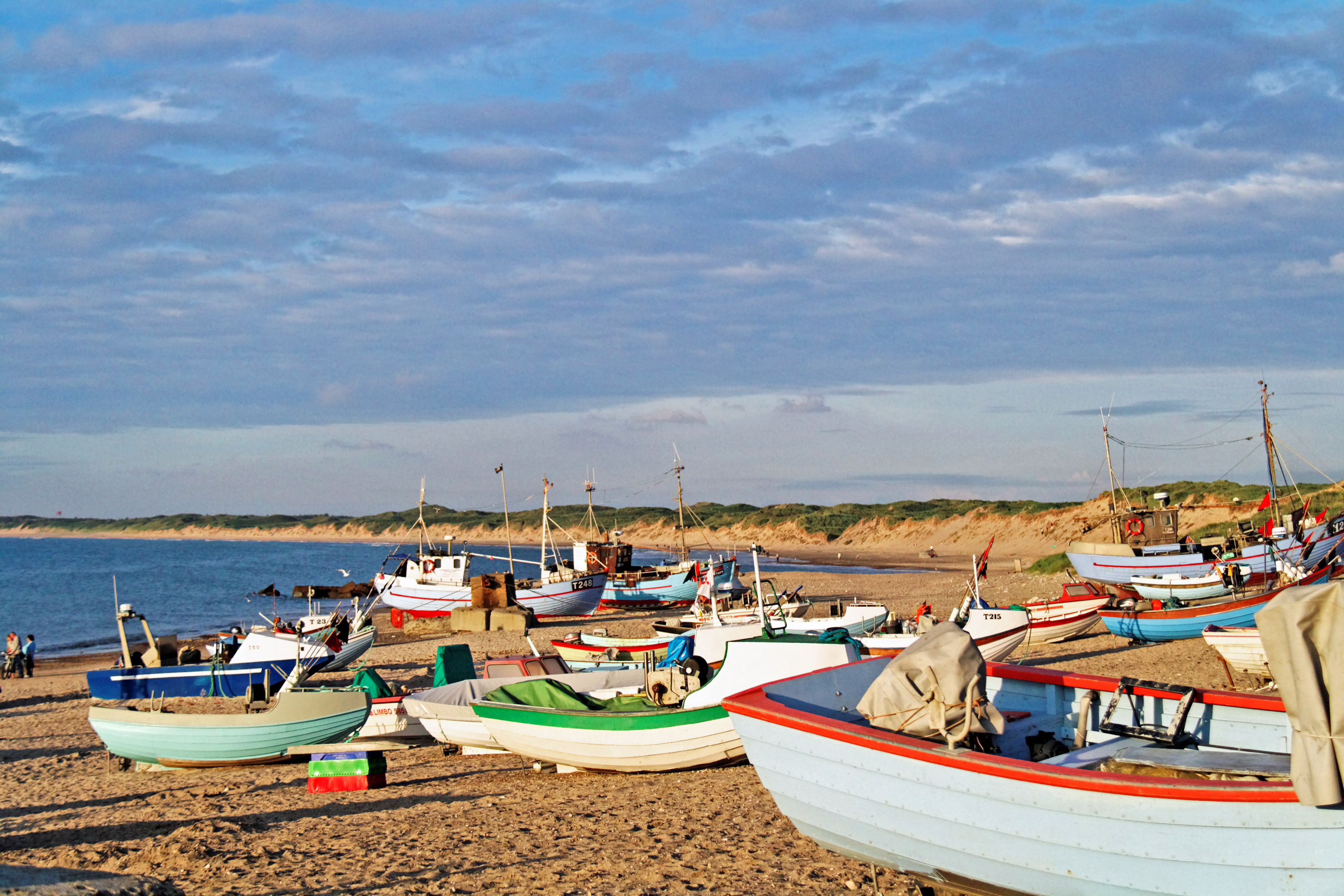 Nørre Vorupør, Northern Denmark